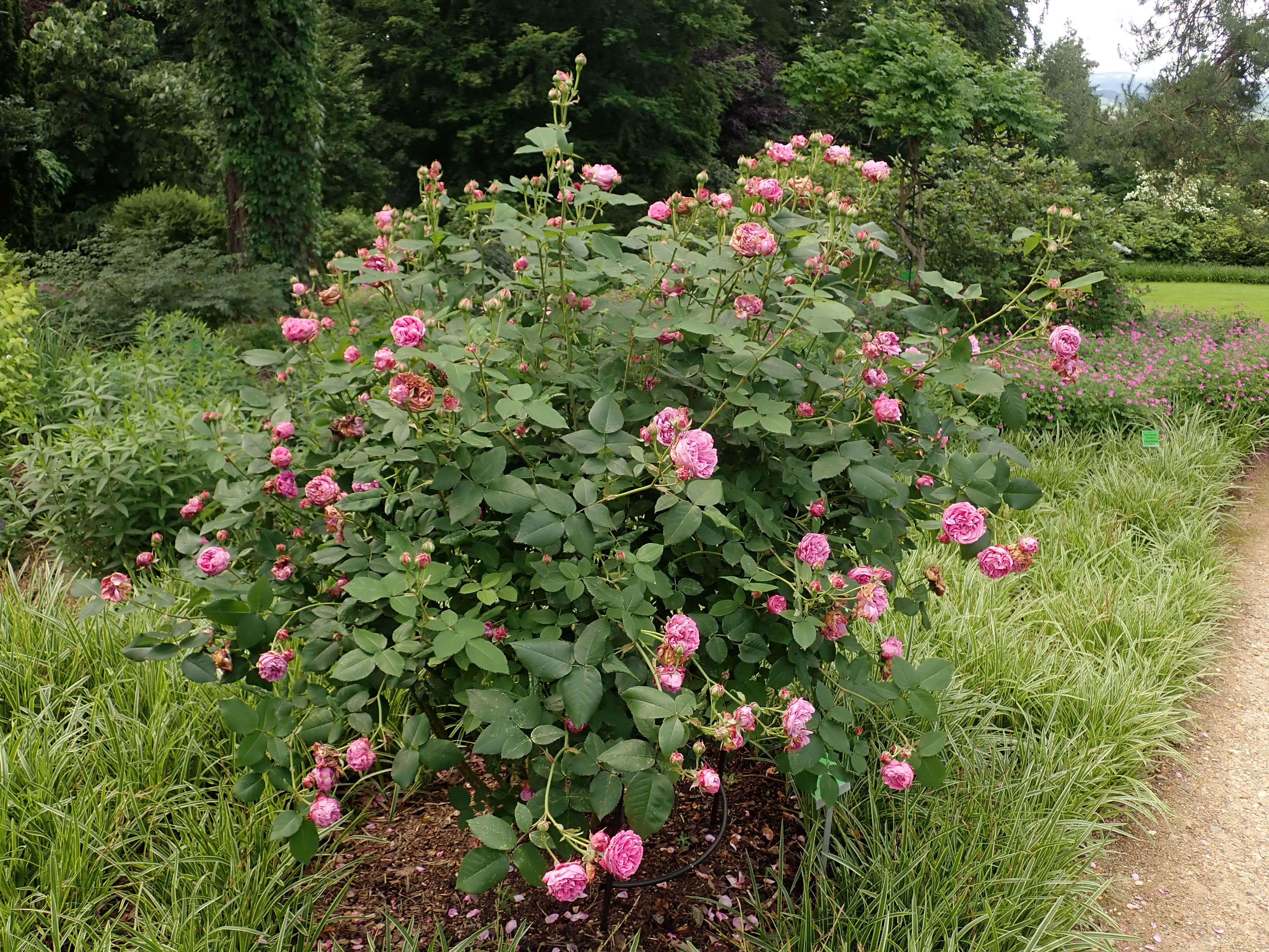 Rosa 'Louise Odier', Arboretum in Wojsławice, Poland.